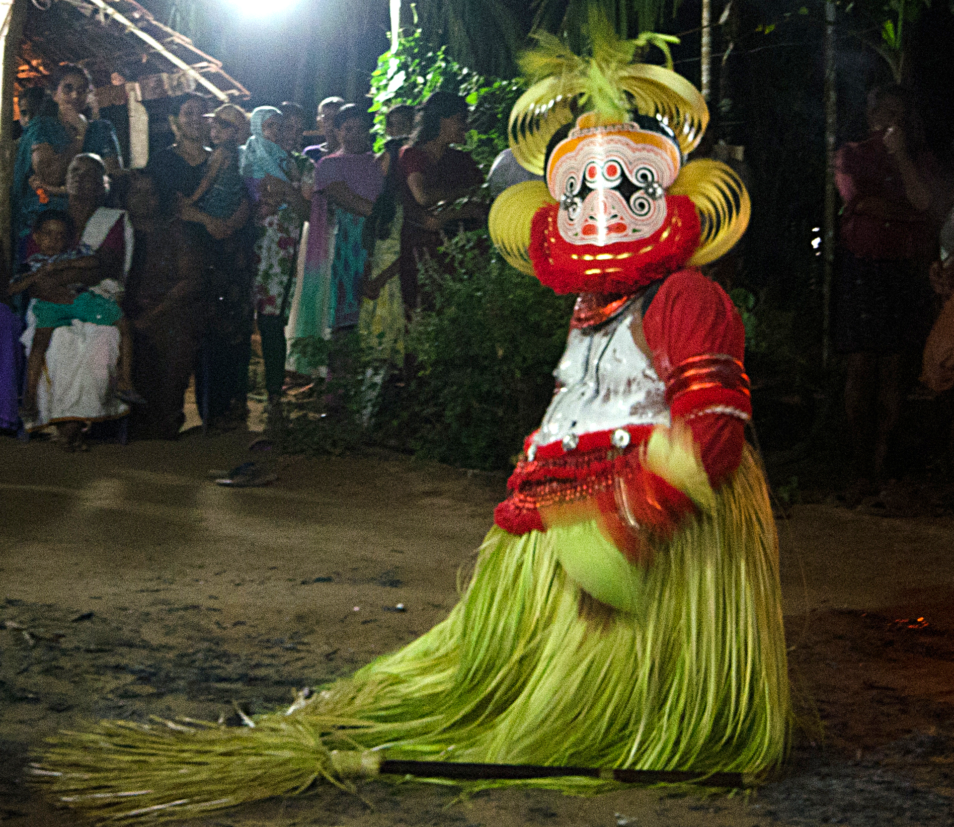 Polaaran Theyyam,usually conducted just before or along with Pottan Theyyam.Mask of Polaran theyyam is a bit smaller and have a red ribbon attached below the mask.